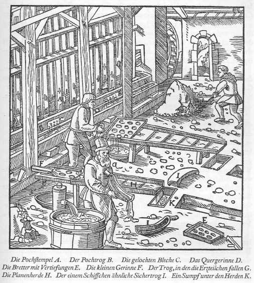 Woodcut from p.279 of: De re metallica. Vom Bergwerk XII Bücher. Ore processing with stamp mill, shaking table, sluice, pan and perforated metal plates.